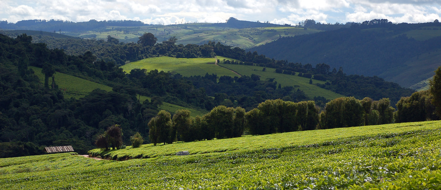 view over the tea fields at the Maganga Tea Estates in Mufindi, Tanzania